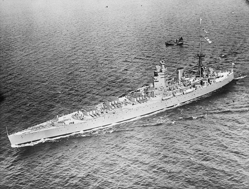 The Royal Navy in the Interwar Period Battleship HMS Nelson.